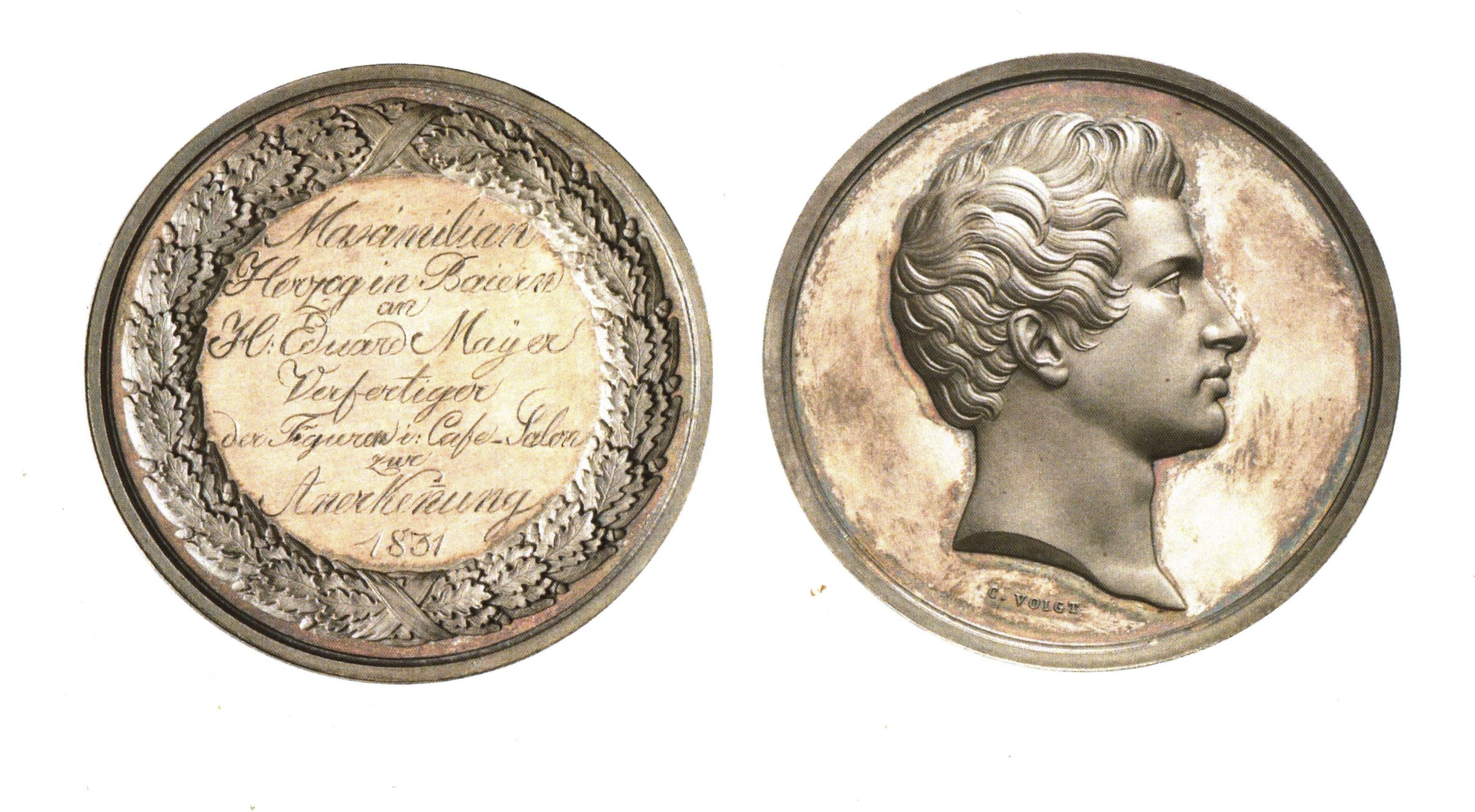 Medal of recognition for Ernst Mayer (1796-1844) by Bavarian Duke Max, sculpted by C. Voigt